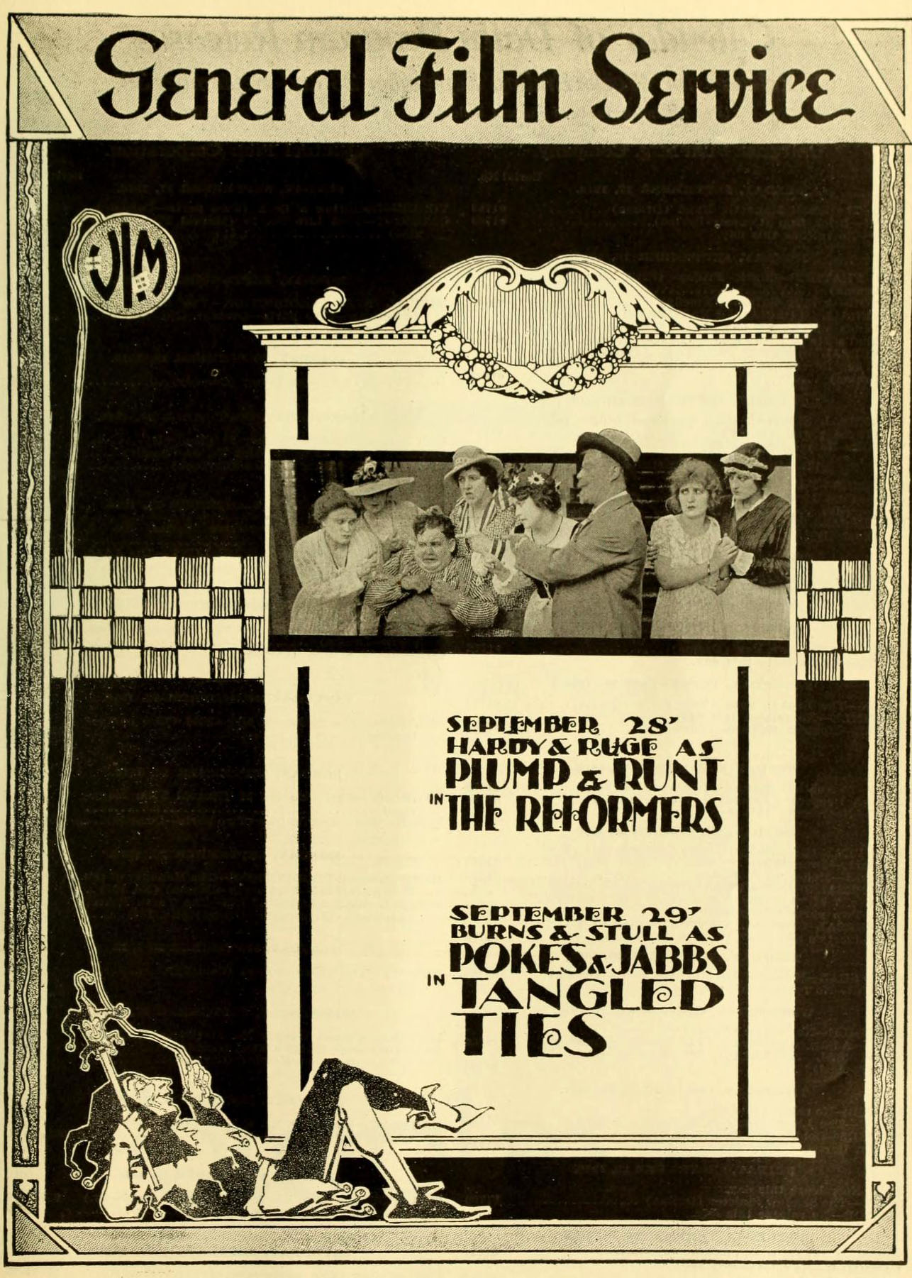 Advertisement in Moving Picture World for the American film The Reformers (1916).